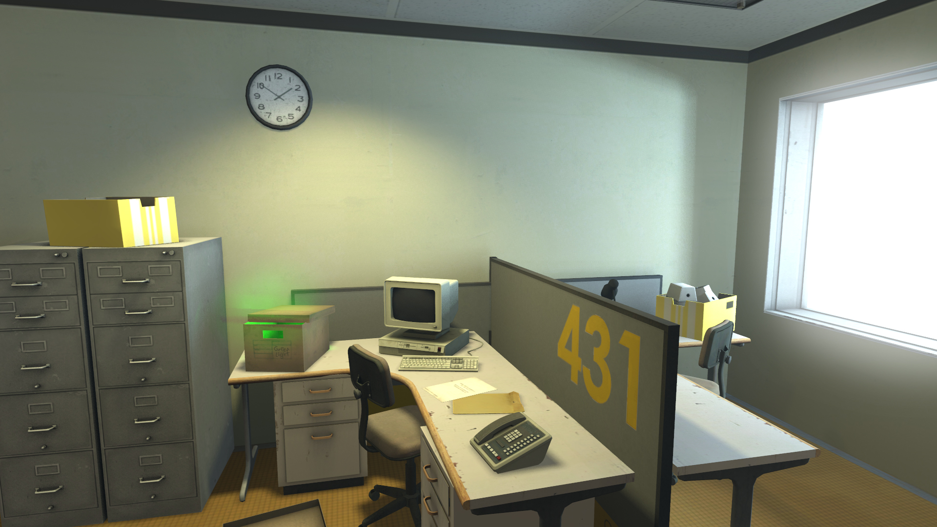 The Stanley Parable screenshot. Released in 2013, the game was developed by Galactic Cafe.